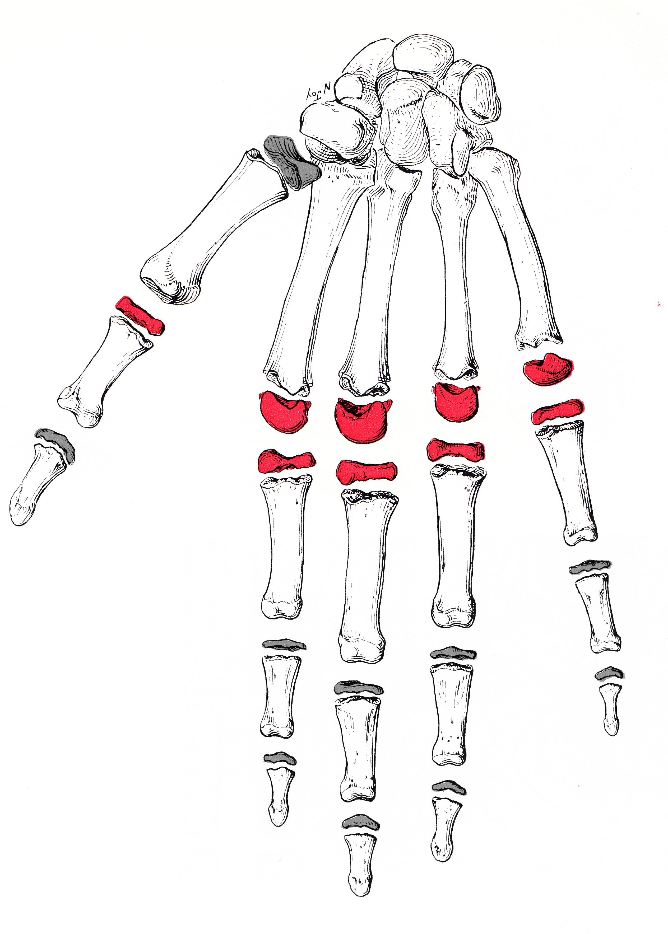 Based off With DIP, PIP & IP-joints desaturated to show the MCP.